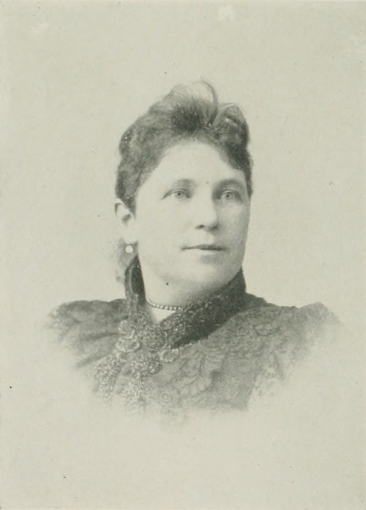 one of the Women of the Century